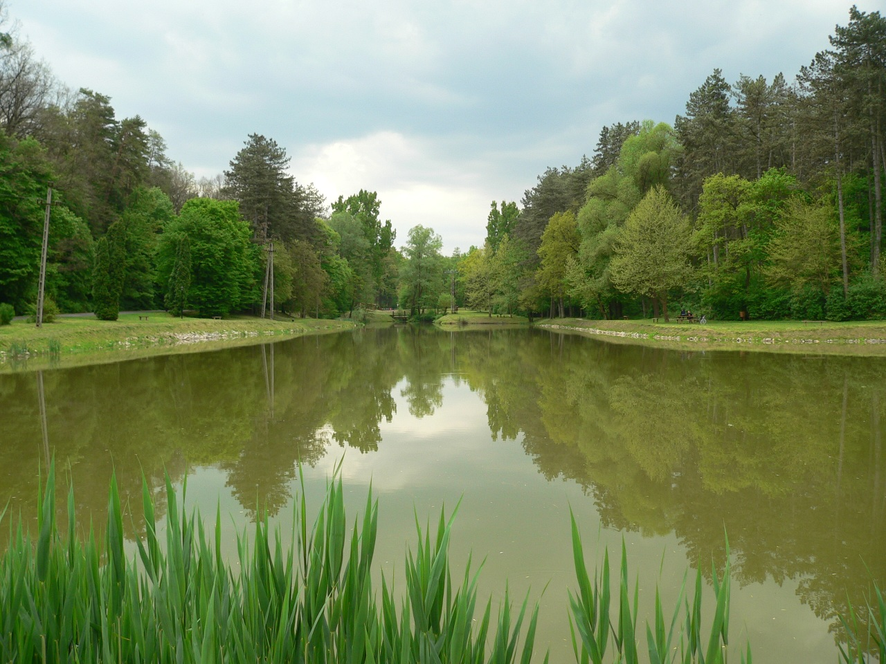 Lake in the forest at Tamási (south-west), near the former Majsamiklósvár village.